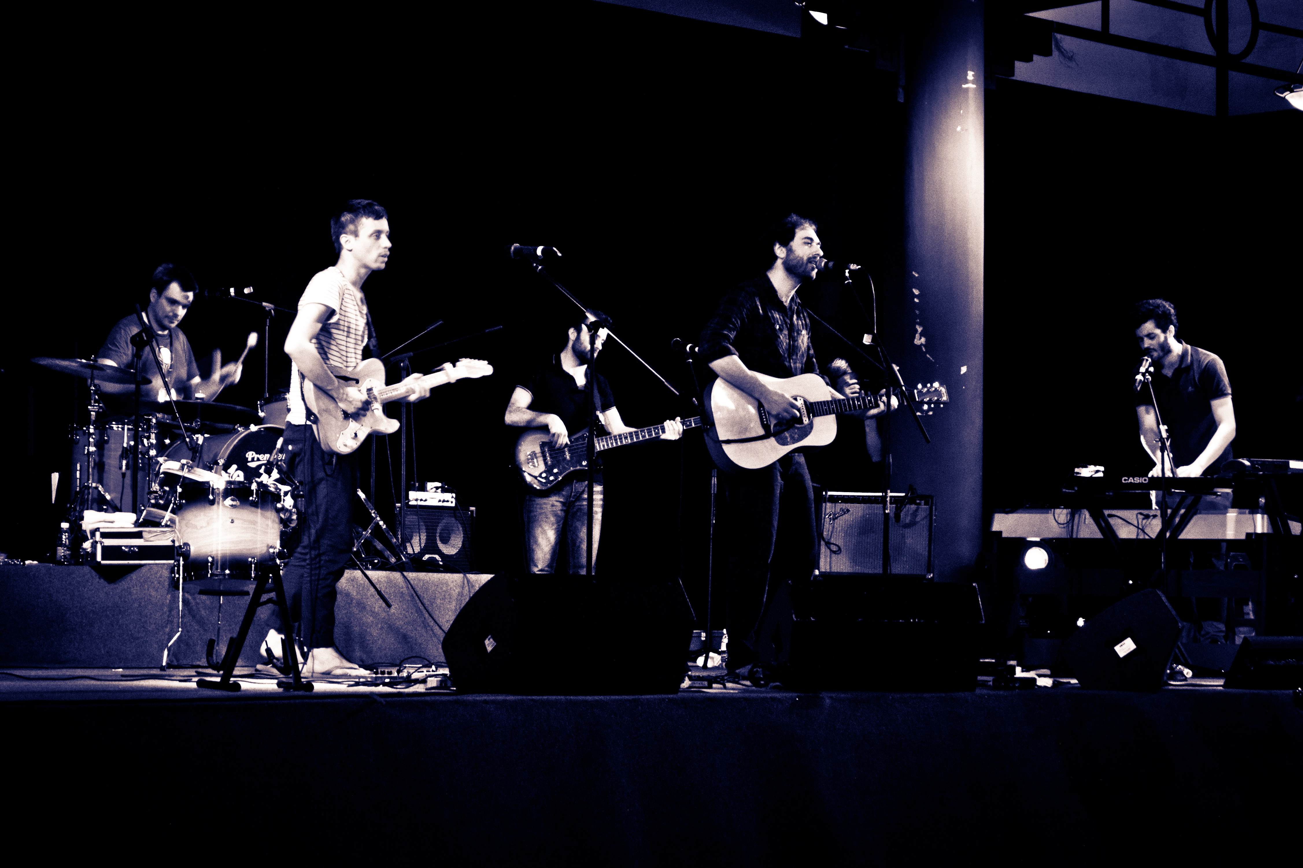 Syd Matters performing at Festival Croisements 2011 Shunde China